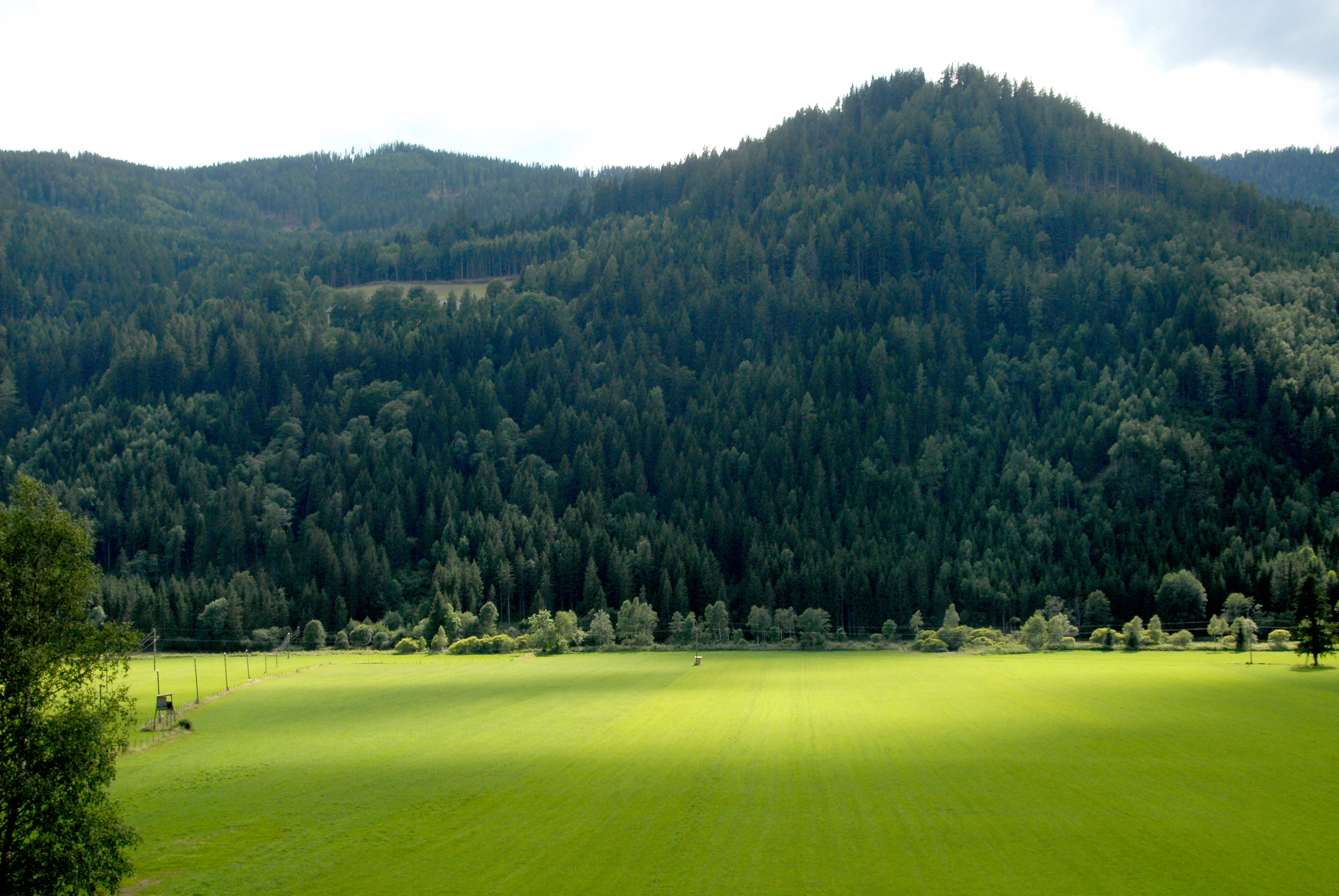 Gloednitz valley with Kaufmannbuehel in the community of Gloednitz, district Saint Veit on the Glan, Carinthia, Austria